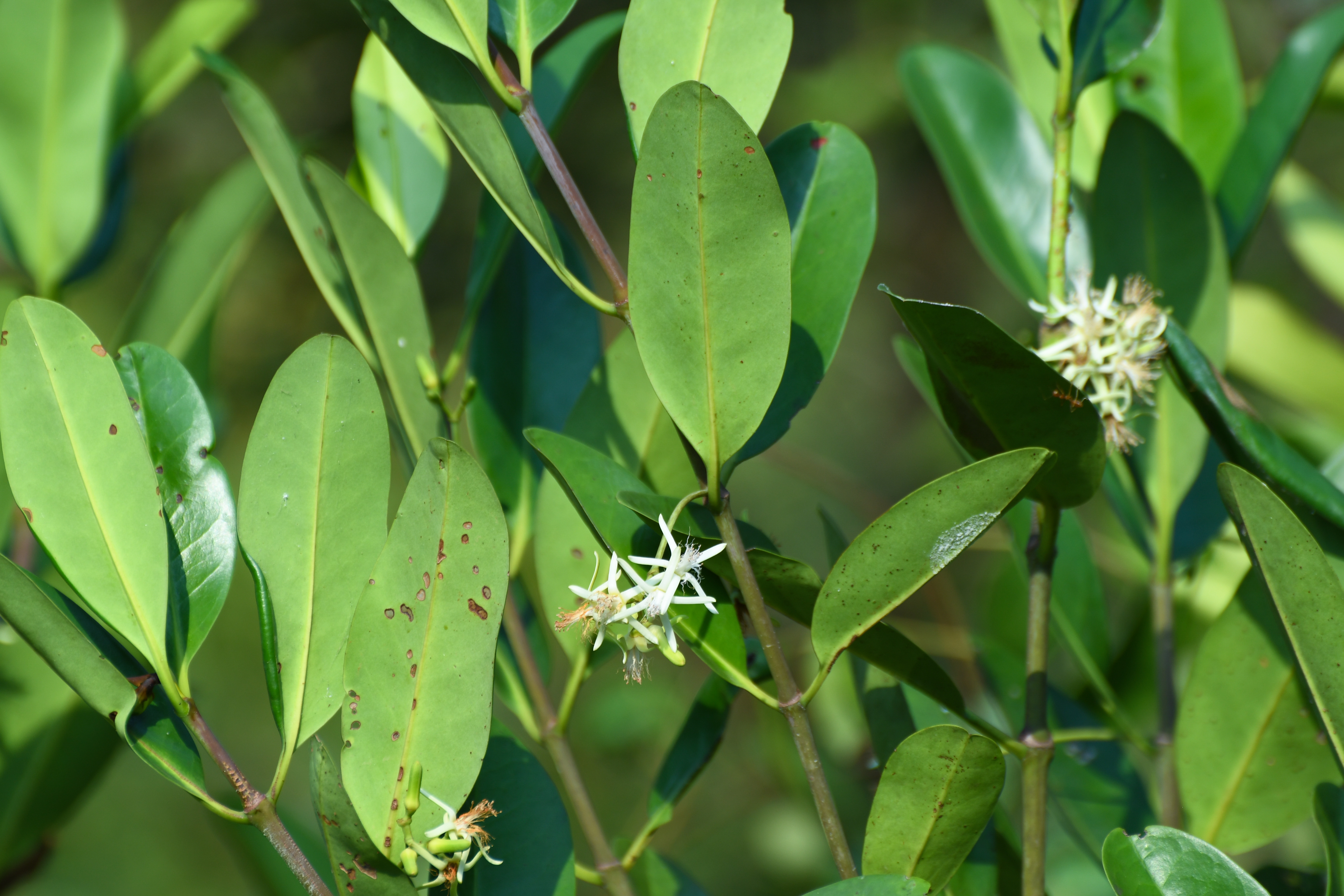 mangroves